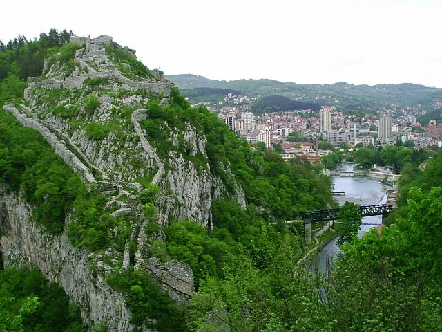 Užice, a town in southwestern Serbia